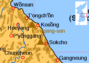 This map shows the location of both Kumgang-san in North Korea and Seorak-san in South Korea. Drawn myself.